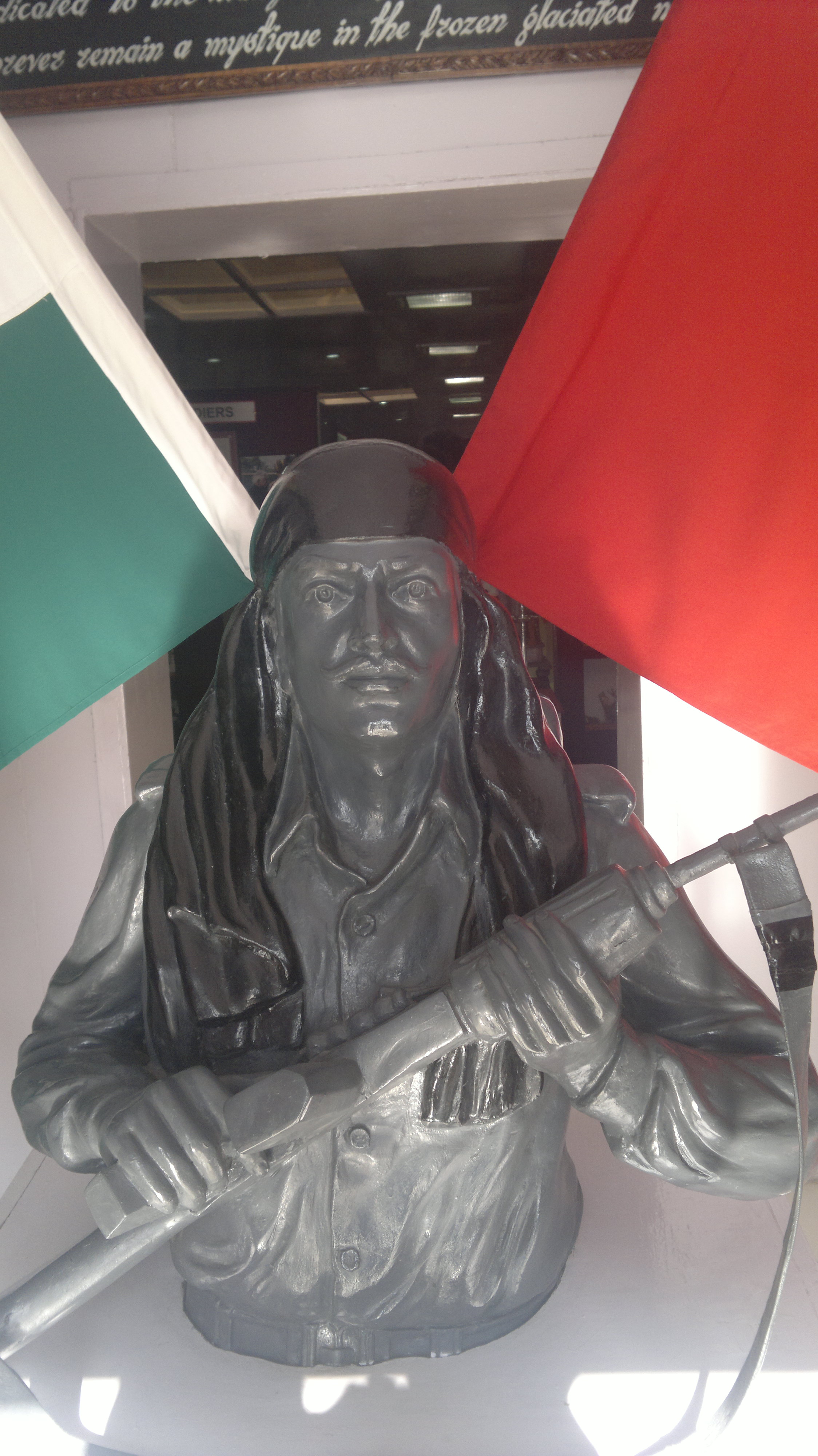 Image installed at the Kar Gil War Memorial, Drass